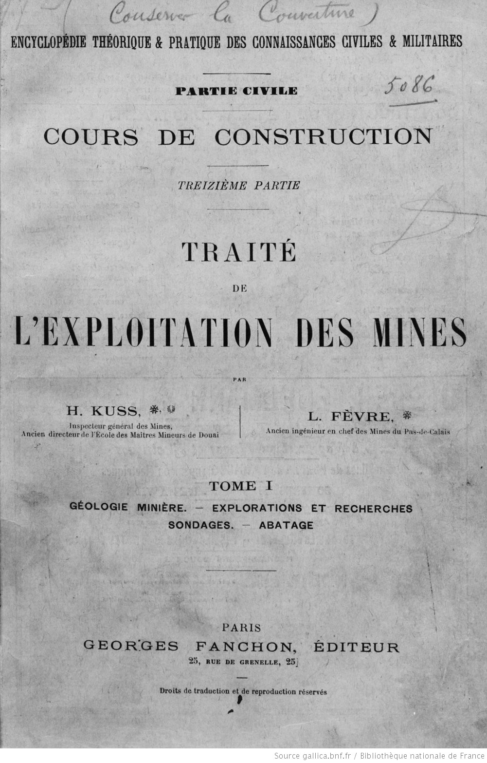 Cover of the Traité de l'exploitation des mines